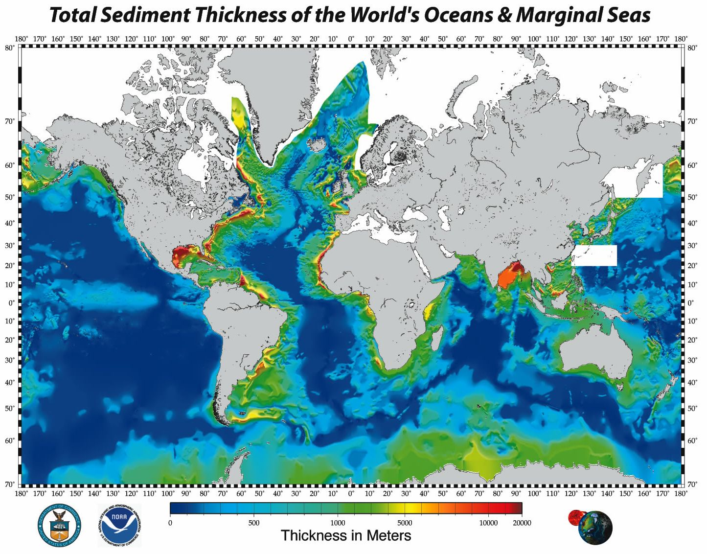 Total sediment thickness of the World's oceans & marginal seas